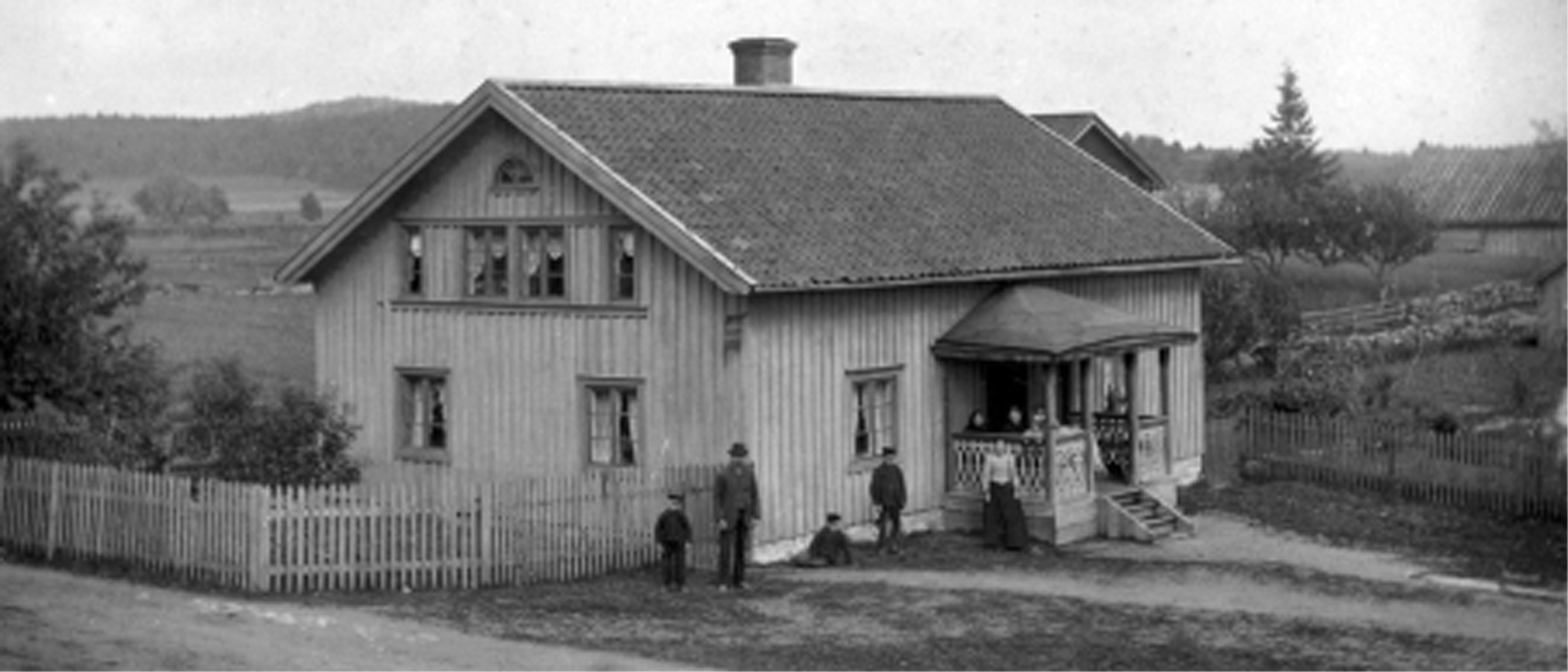 Östad Inn in Lerum Municipality, Västra Götaland County, Sweden 1895